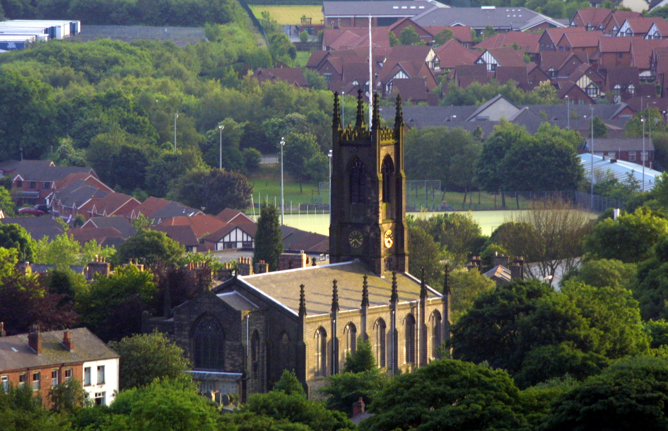 Roofscape of Horwich, Greater Manchester, England, looking southwest at Holy Trinity parish church